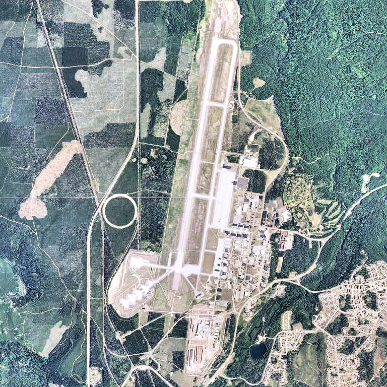 USGS digital orthophoto of Sawyer International Airport in Michigan